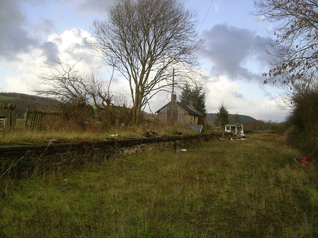 Derry Ormond Halt Derry Ormond Halt served the village of Betws Bledrws immediately to the north and the nearby Derry Ormond Estate, after which it was named. It closed in 1964 with the cessation of passenger services on this line but is exceptionally well-preserved, retaining its original shelter in G.W.R. 'chocolate and cream' paint scheme. This looks northeast along the old trackbed in the east of the gridsquare